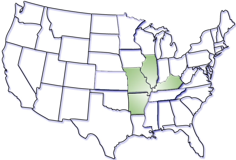 Big River Telephone Company, LLC. Core Map